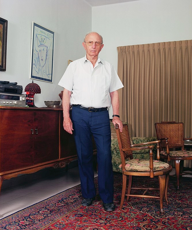 Art of Israel